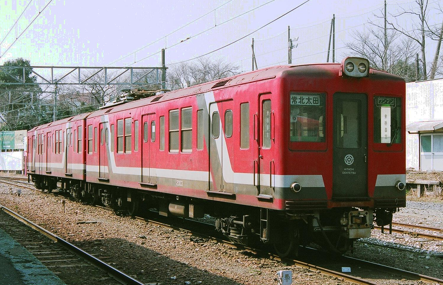 Hitachi-Dentetsu Railway Type 2000(2003+2214) Train (Japan). Taking a picture from Omika-Station platform in Hitachi-Dentetsu-line. 営団2000形電車改造の日立電鉄2000系電車 画像は2003+2214の2両編成。 日立電鉄線大甕駅のホームより撮影。